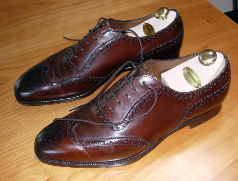 Men's dark oak colored Adelaide Half/Semi brogue wingtip dress shoes